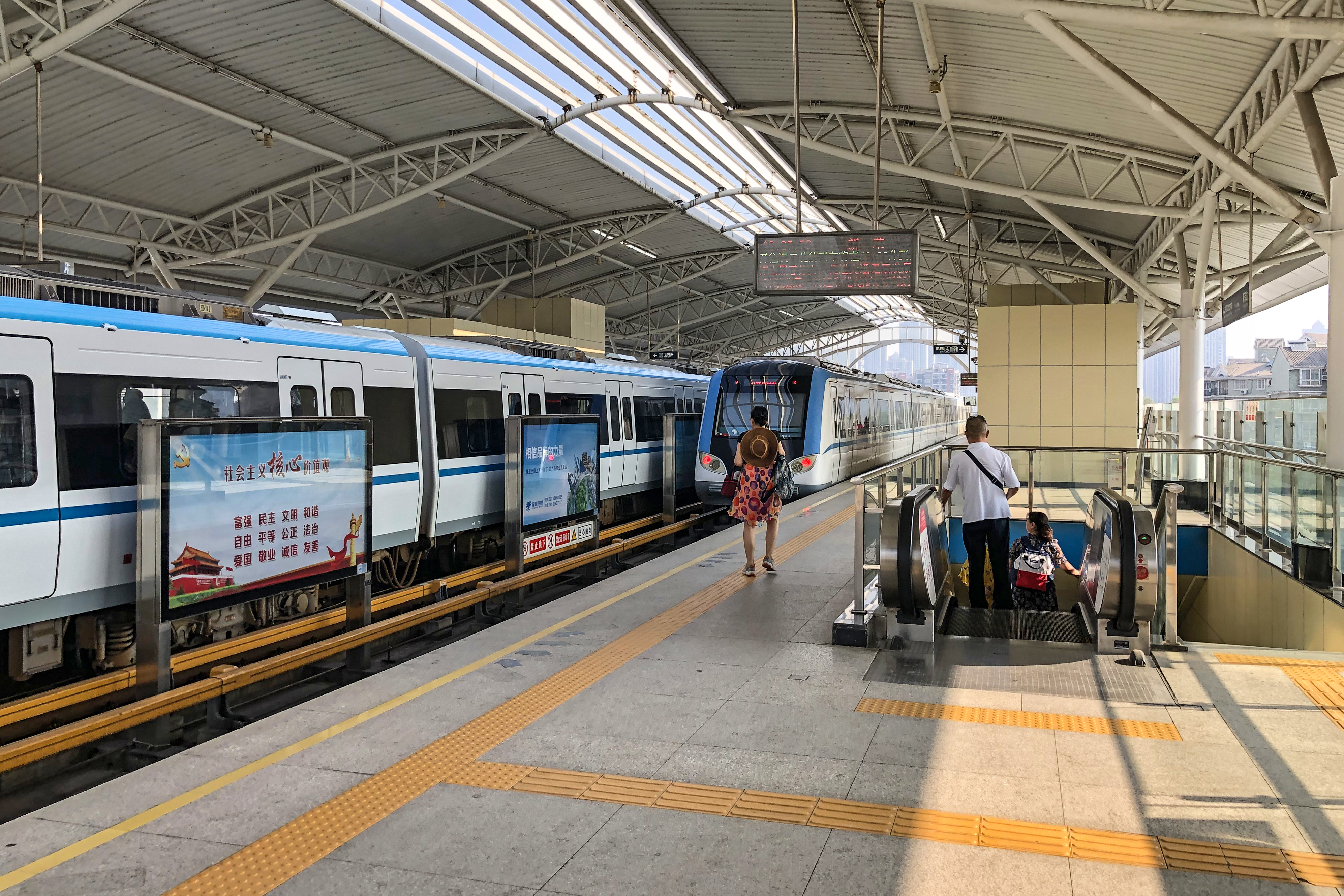 Start of a spotting.